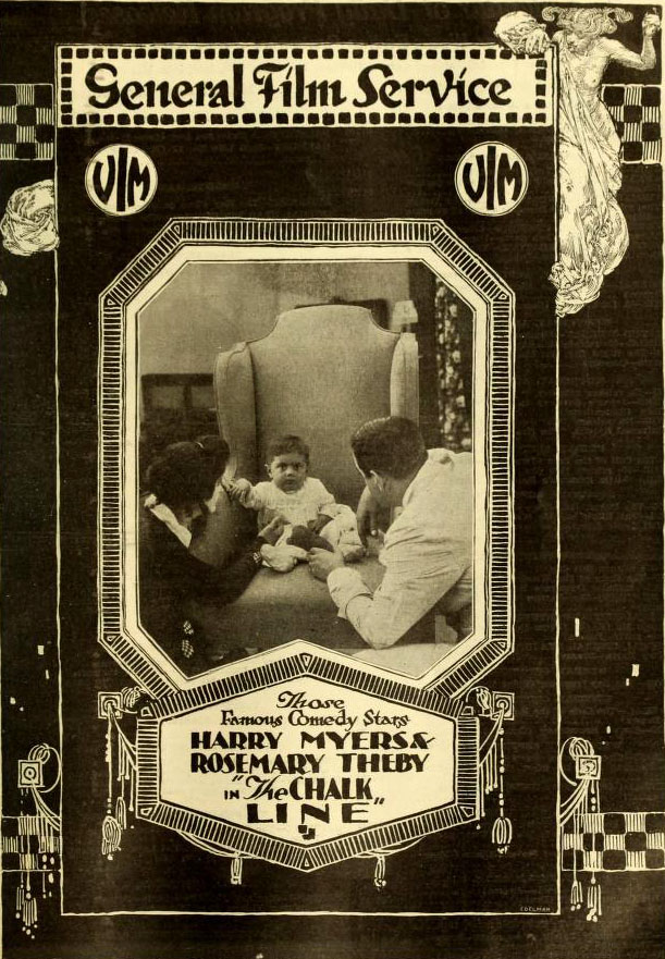 Advertisement in Moving Picture World